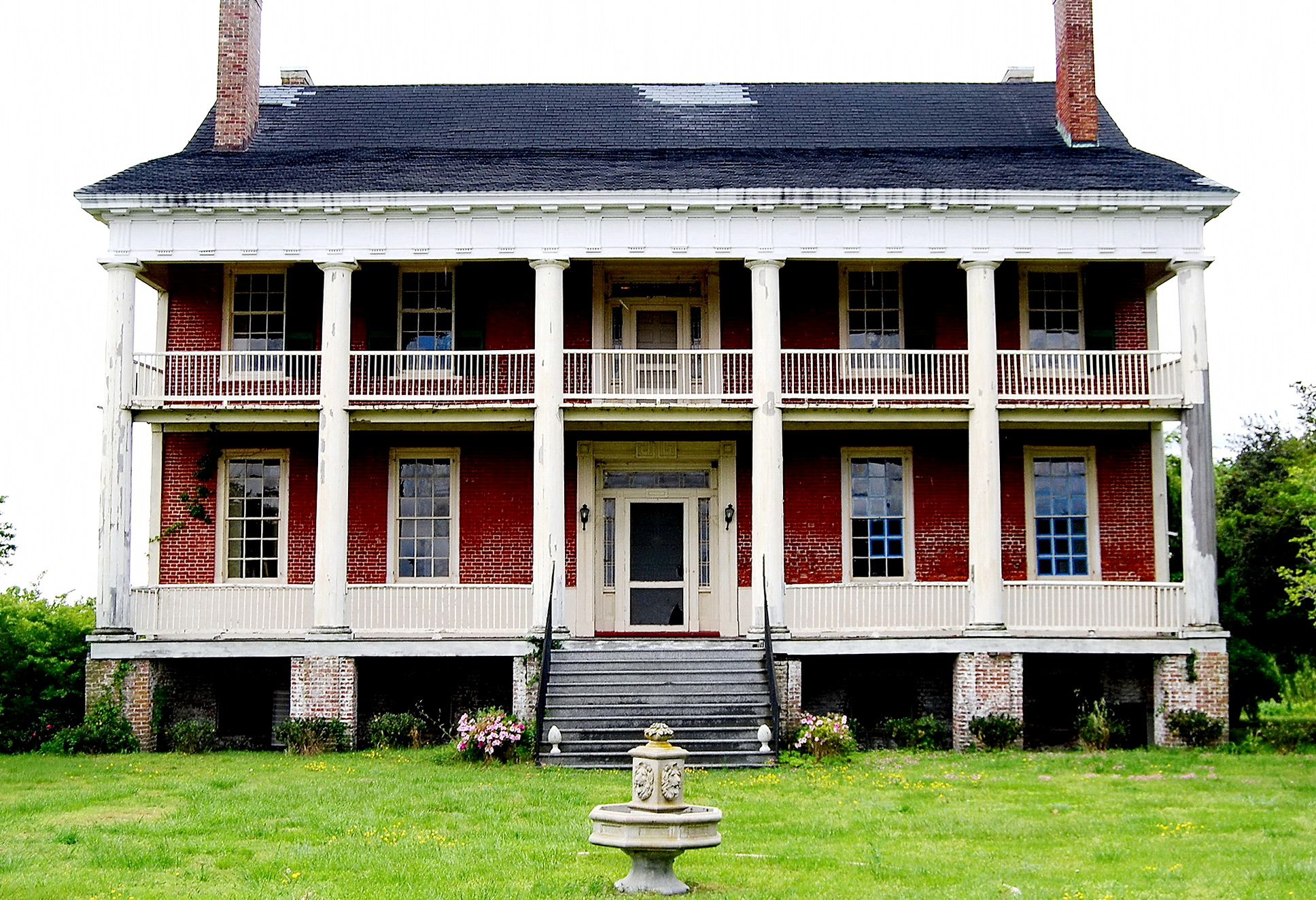 Land End - Perquimans County, North Carolina - Home of Col. James Leigh (1781-1854).